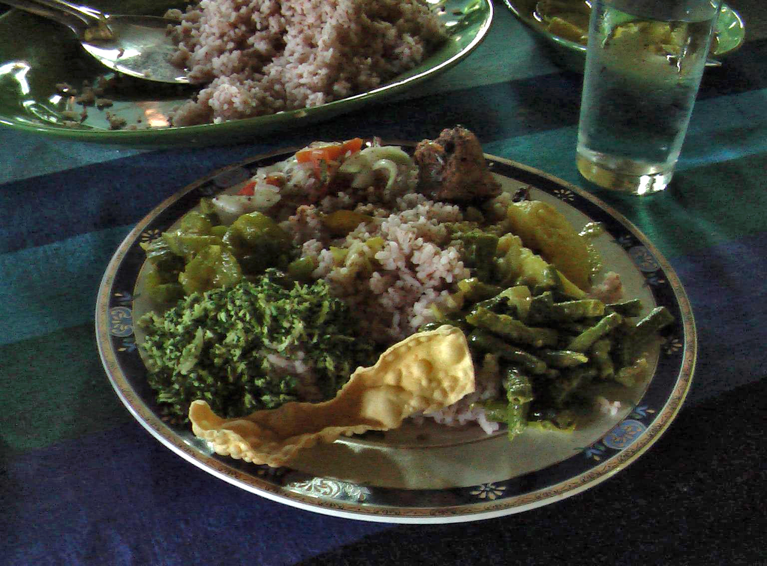 Rice and Curry meal in a private house in Gangodawila, Nugegoda, Sri Lanka. You can see chicken meat, beans, salad, potatoes, green leaves, and papadam, along with red Sri Lankan rice.